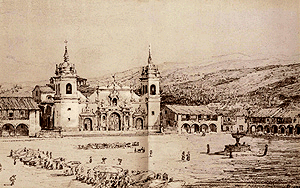 Ayacucho, Peru, c. 1847